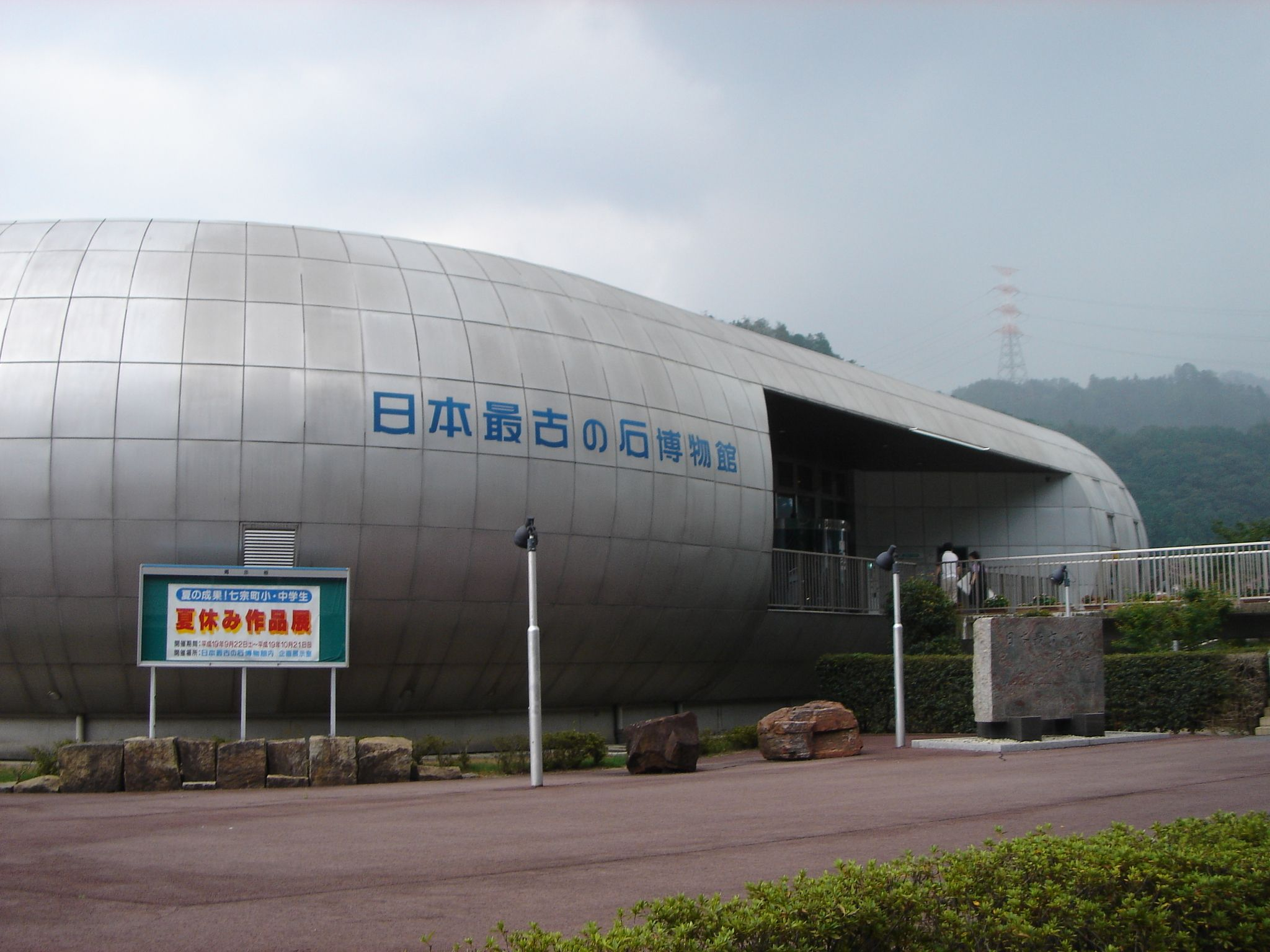 Hichiso Precambrian Museum(日本最古の石博物館),Hichoso,Gifu,Japan(岐阜県七宗町)で撮影。